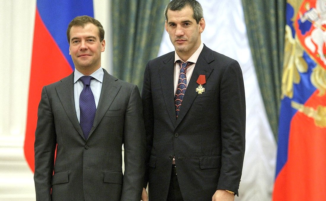 Buwaisar Saytiev in Kremlin